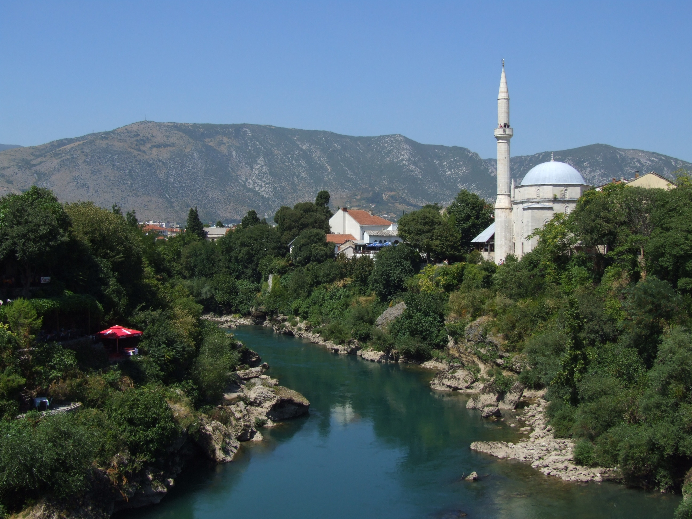 Mostar and Neretva - view from Stari Most